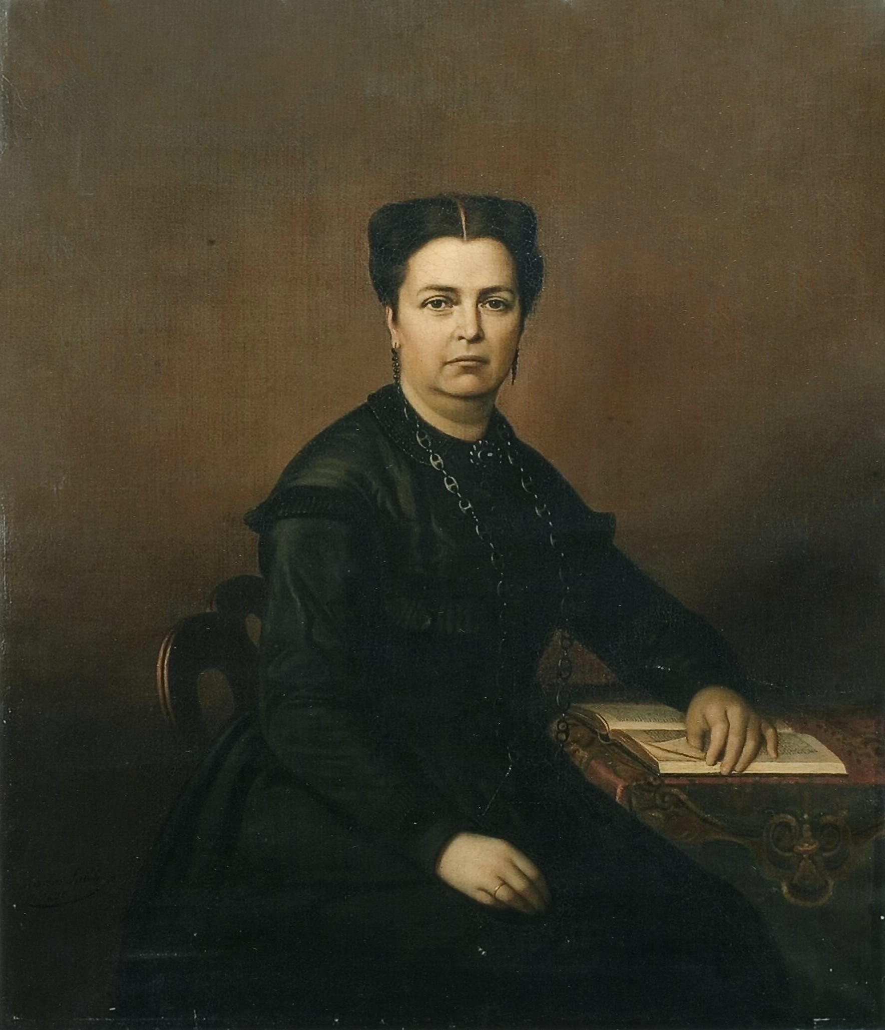 Jeannette Pietermaat (1816-1870) painted by Raden Saleh (1811-1880). Collection Tropenmuseum Amsterdam.